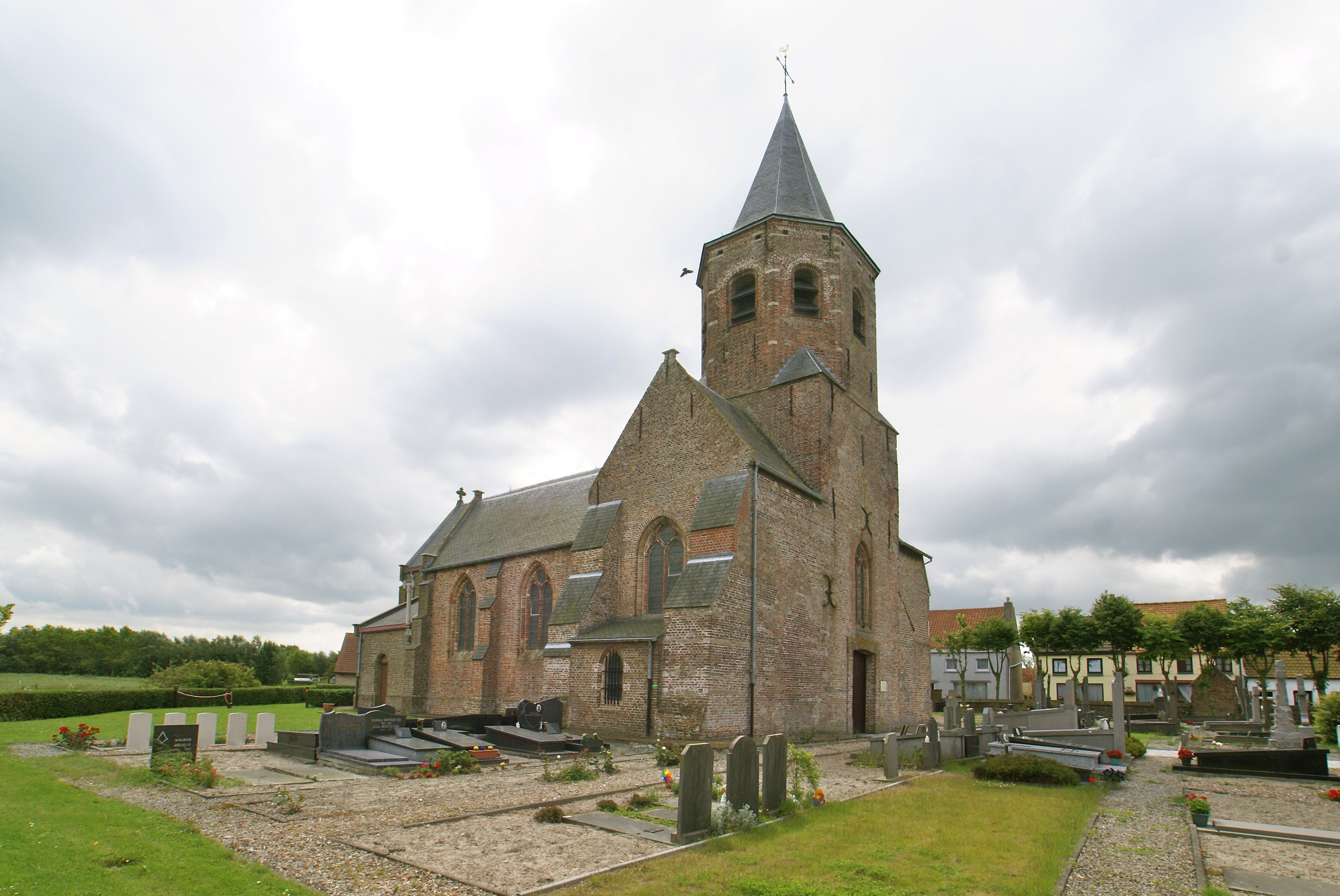 Nieuwmunster (Belgium): Saint Bartholomew's Church